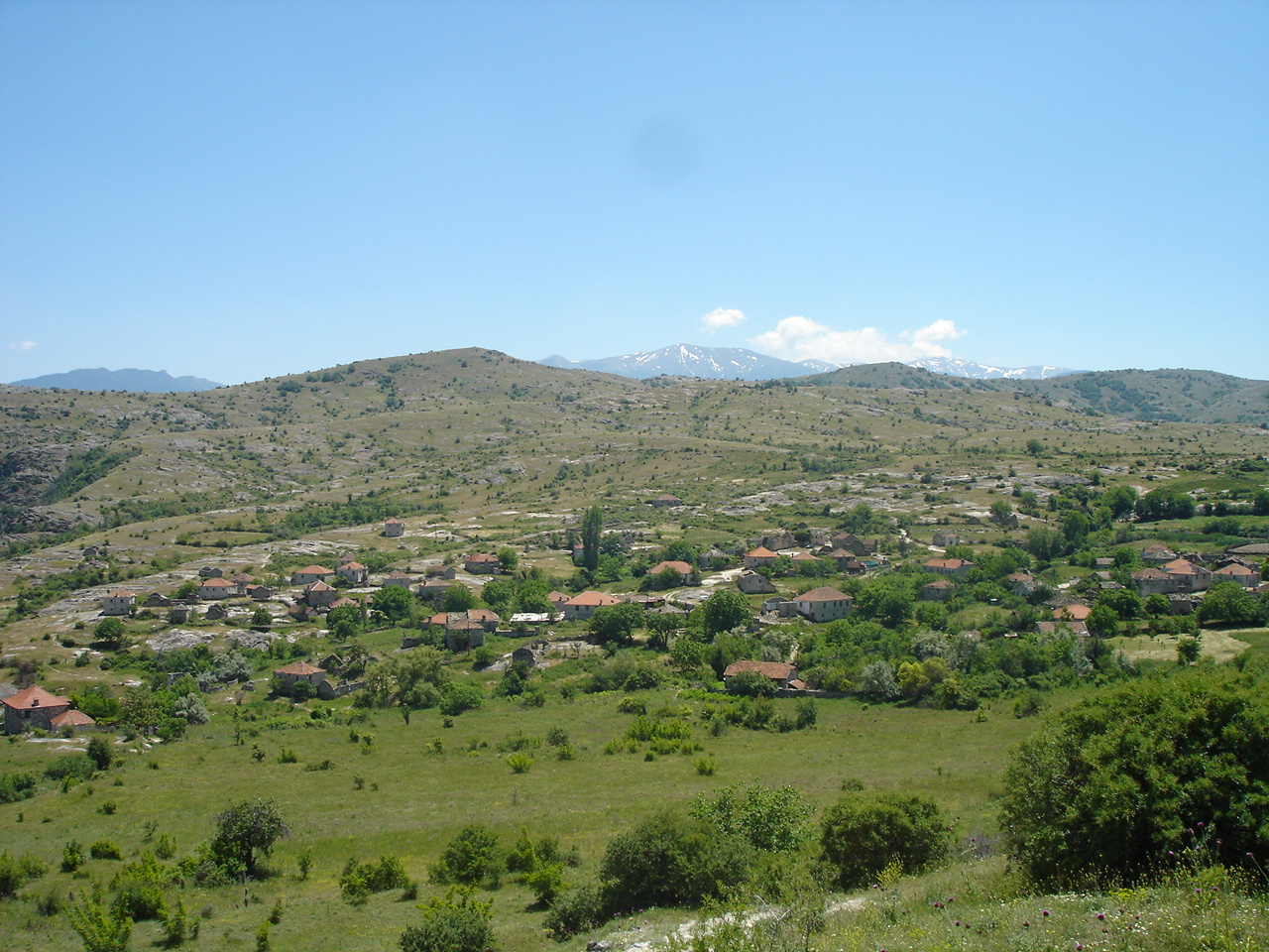 village of Zovich in Mariovo region, Macedonia